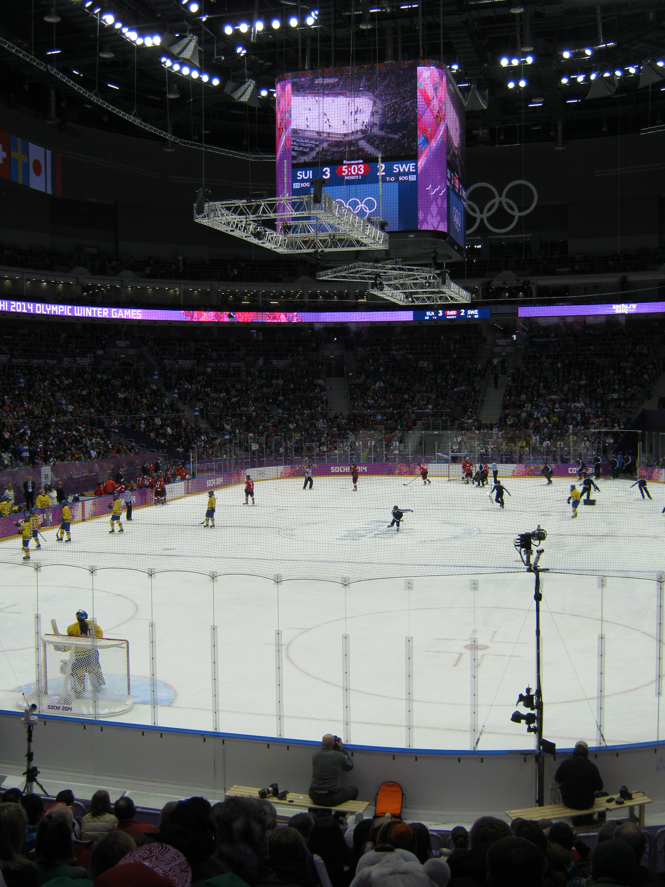 Ice hockey at the 2014 Winter Olympics – Women's tournamentю Bronze medal game Switzerland - Sweden. Bolshoy Ice Dome. Sochi, Russia